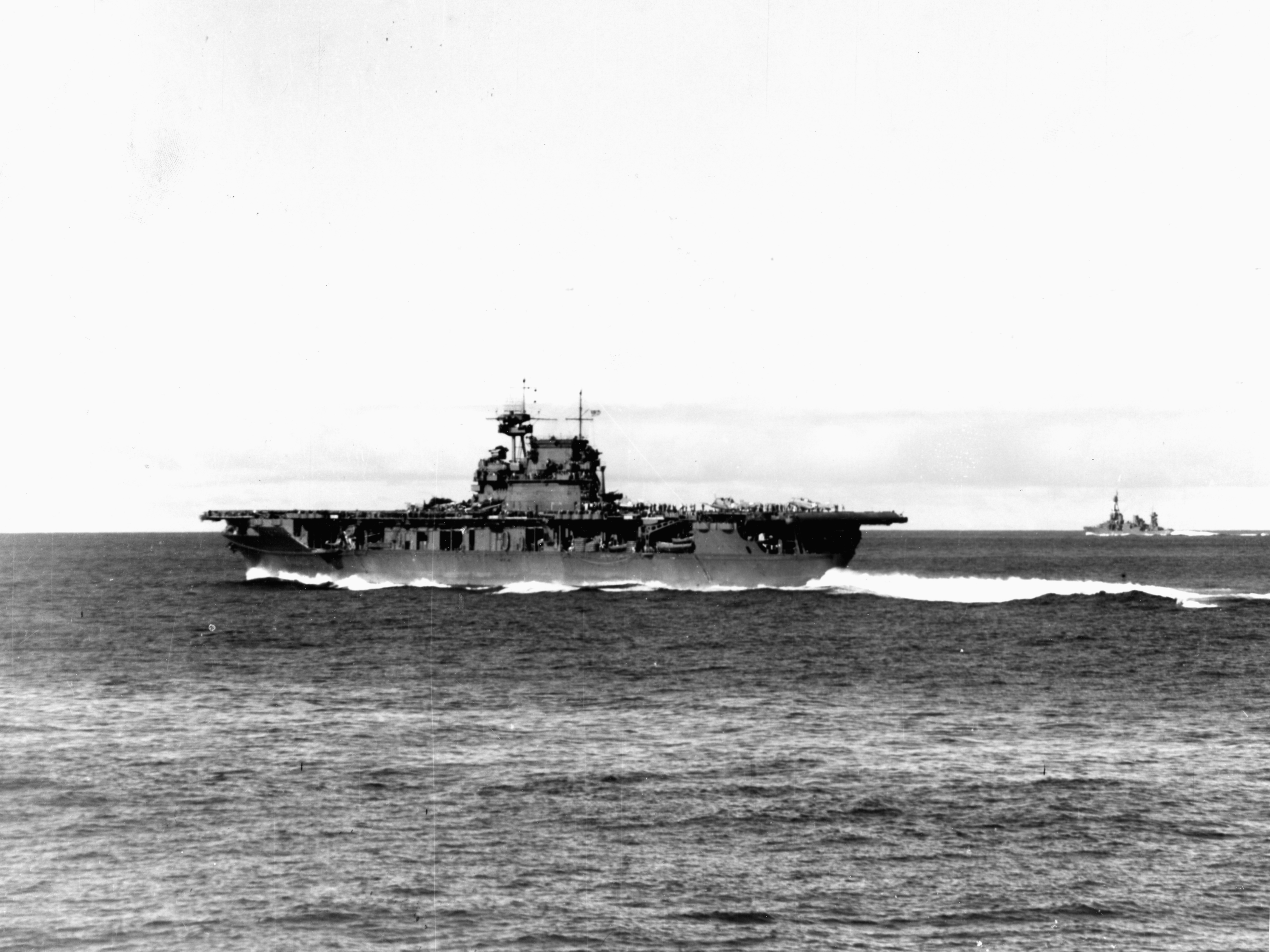 The U.S. Navy aircraft carrier USS Enterprise (CV-6) steaming at high speed at about 0725 hrs, 4 June 1942, seen from USS Pensacola (CA-24). The carrier had launched Scouting Squadron Six (VS-6) and Bombing Squadron Six (VB-6) and was striking unlaunched SBD aircraft below in preparation for respotting the flight deck with torpedo planes and escorting fighters. USS Northampton (CA-26) is in the right distance, with SBDs orbiting overhead, awaiting the launch of the rest of the attack group.Three hours later, VS-6 and VB-6 fatally bombed the Japanese carriers Akagi and Kaga.